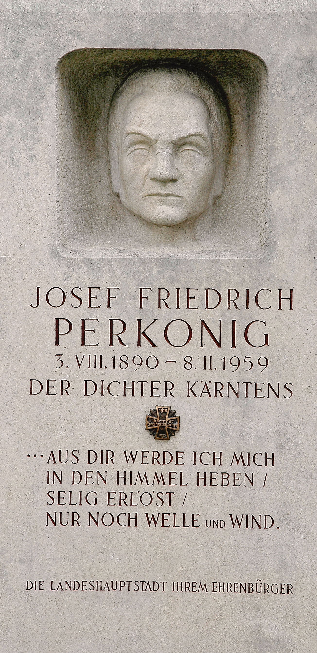 Tombstone of Perkonig´s grave (bust by Karl Newole) on Annabichl-cemetery, in the 9th district "Annabichl" of the Carinthian capital Klagenfurt, capital of the state Carinthia, Austria, EU